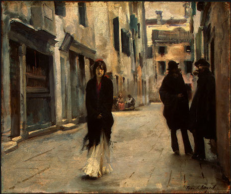 oil on wood painting